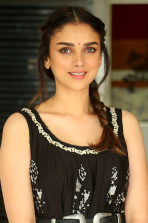 Aditi Rao Hydari snapped at media interactions for Sammohanam, June 2018